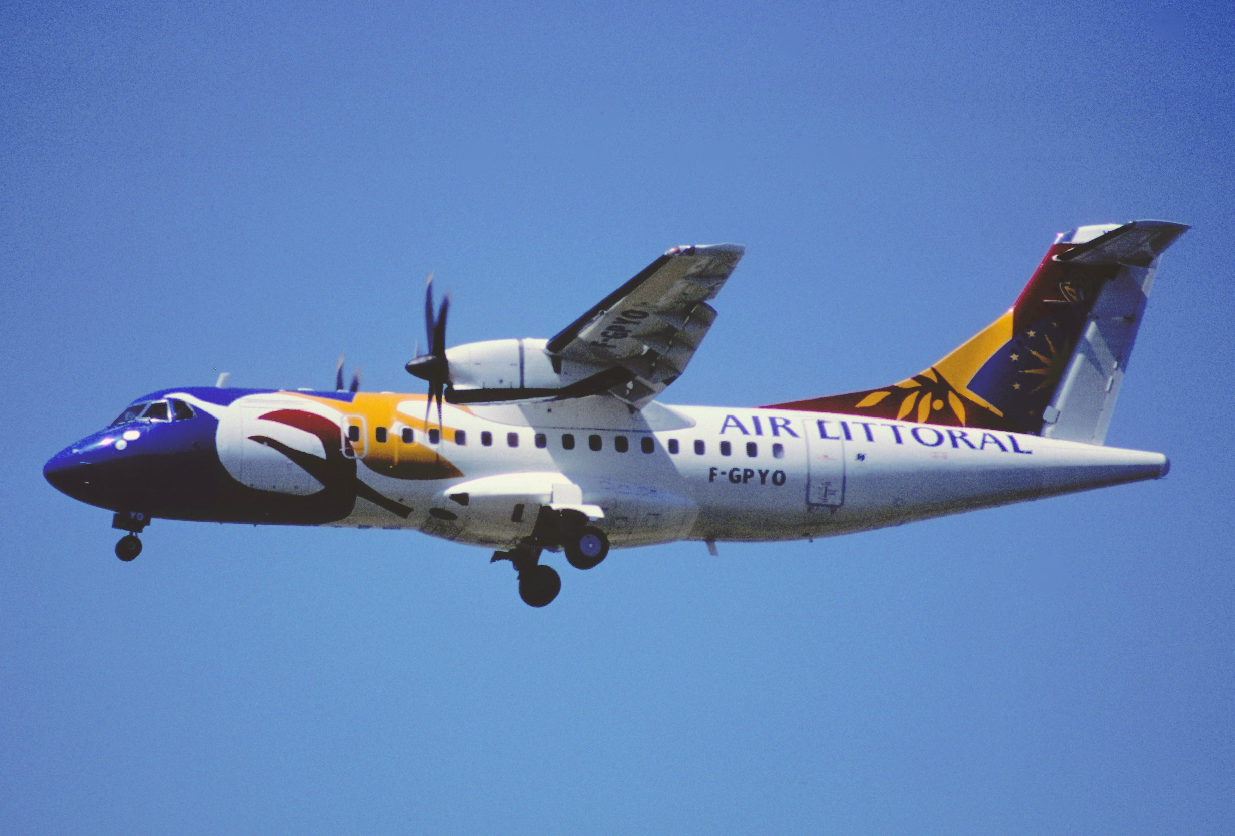 98bw - Air Littoral ATR 42-500, F-GPYO@ZRH;19.06.2000